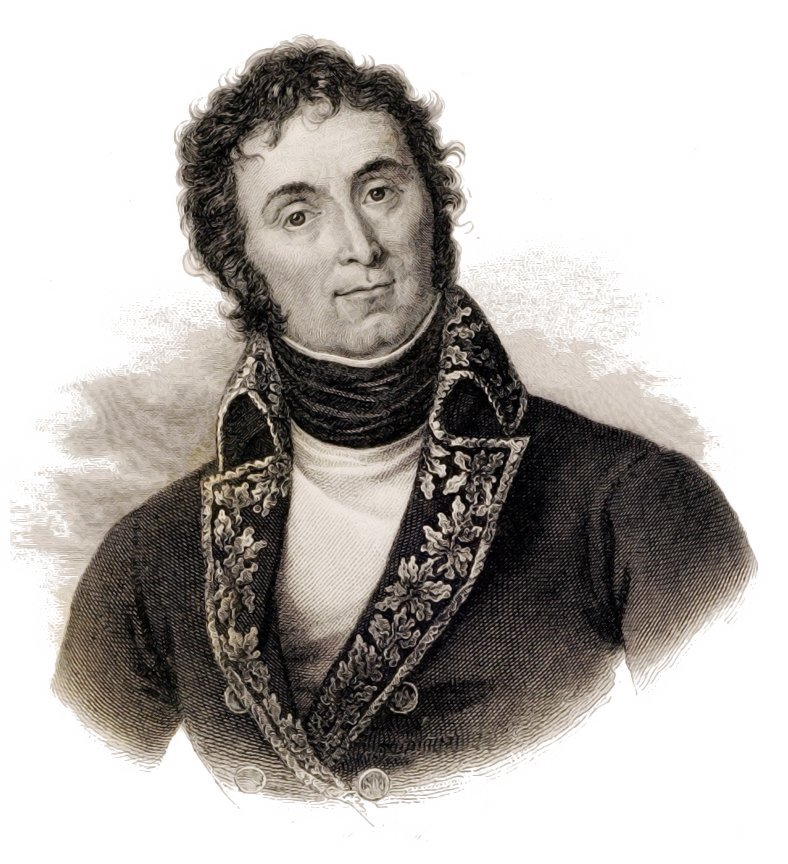 André Masséna, duke of Rivoli, prince of Essling, was a French soldier in the armies of Napoleon and a marshal of France.